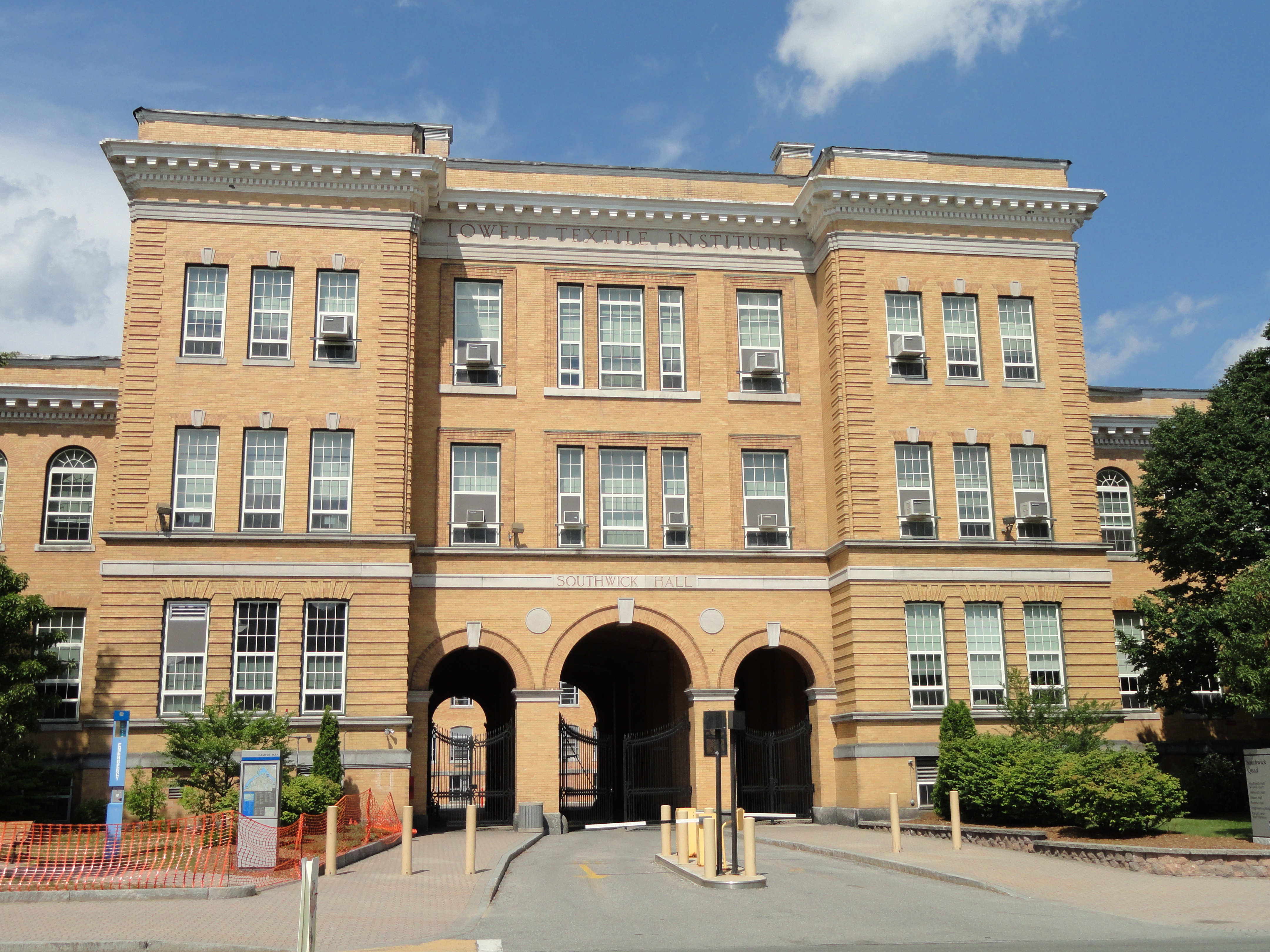 View of University of Massachusetts Lowell, Lowell, Massachusetts, USA.